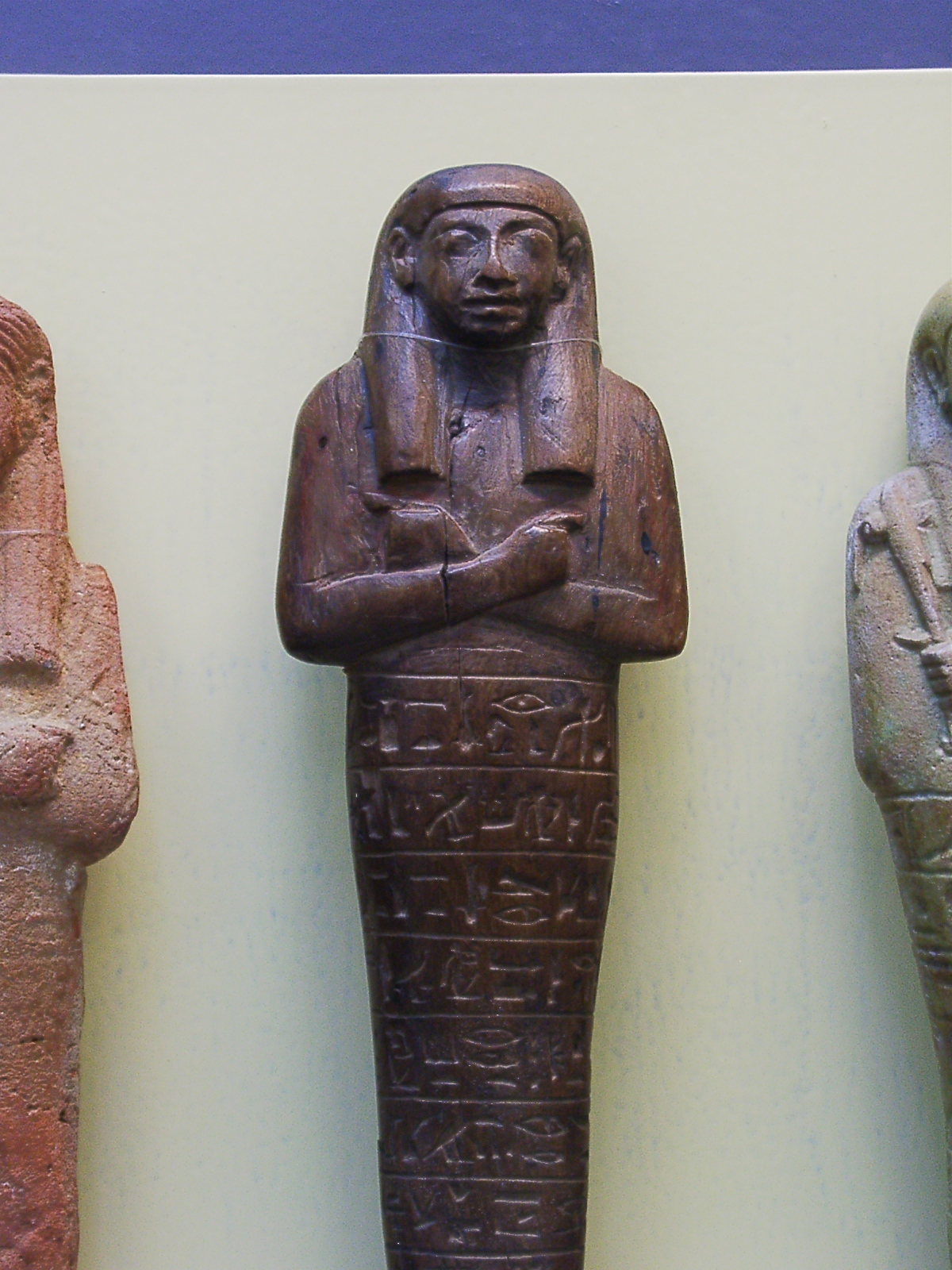 Wooden ushabti in Déri Múzeum, Debrecen, Hungary